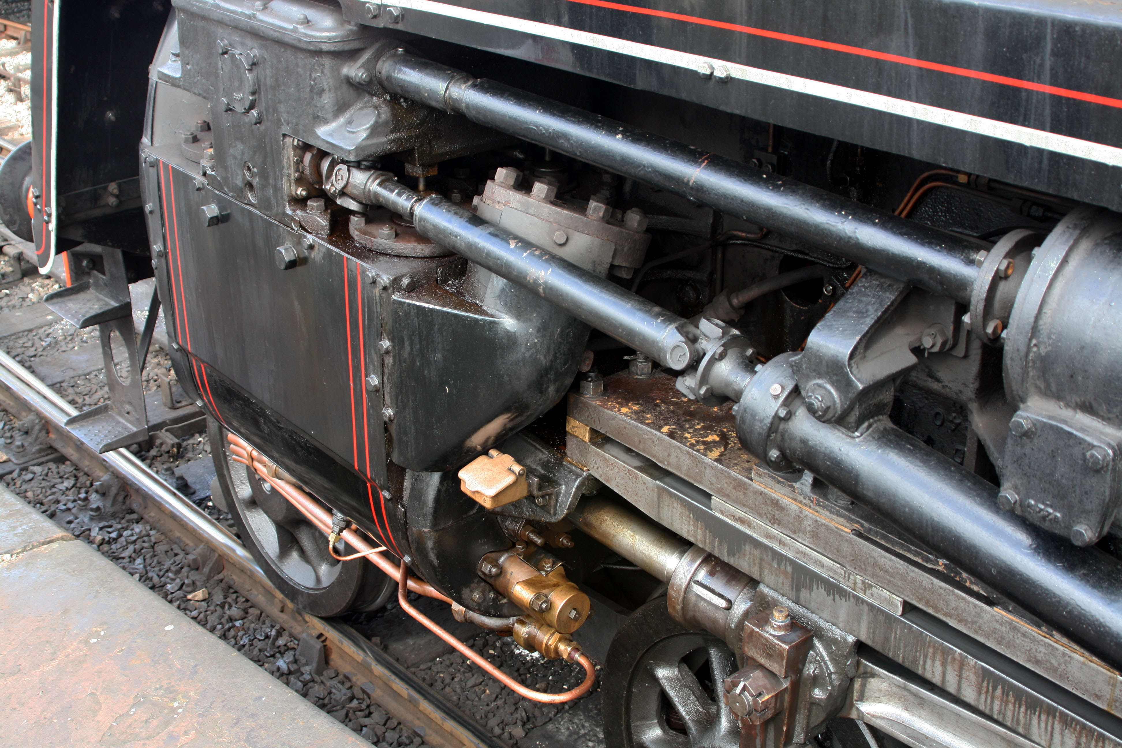 73129 at Railex 2013 Swanwick Junction